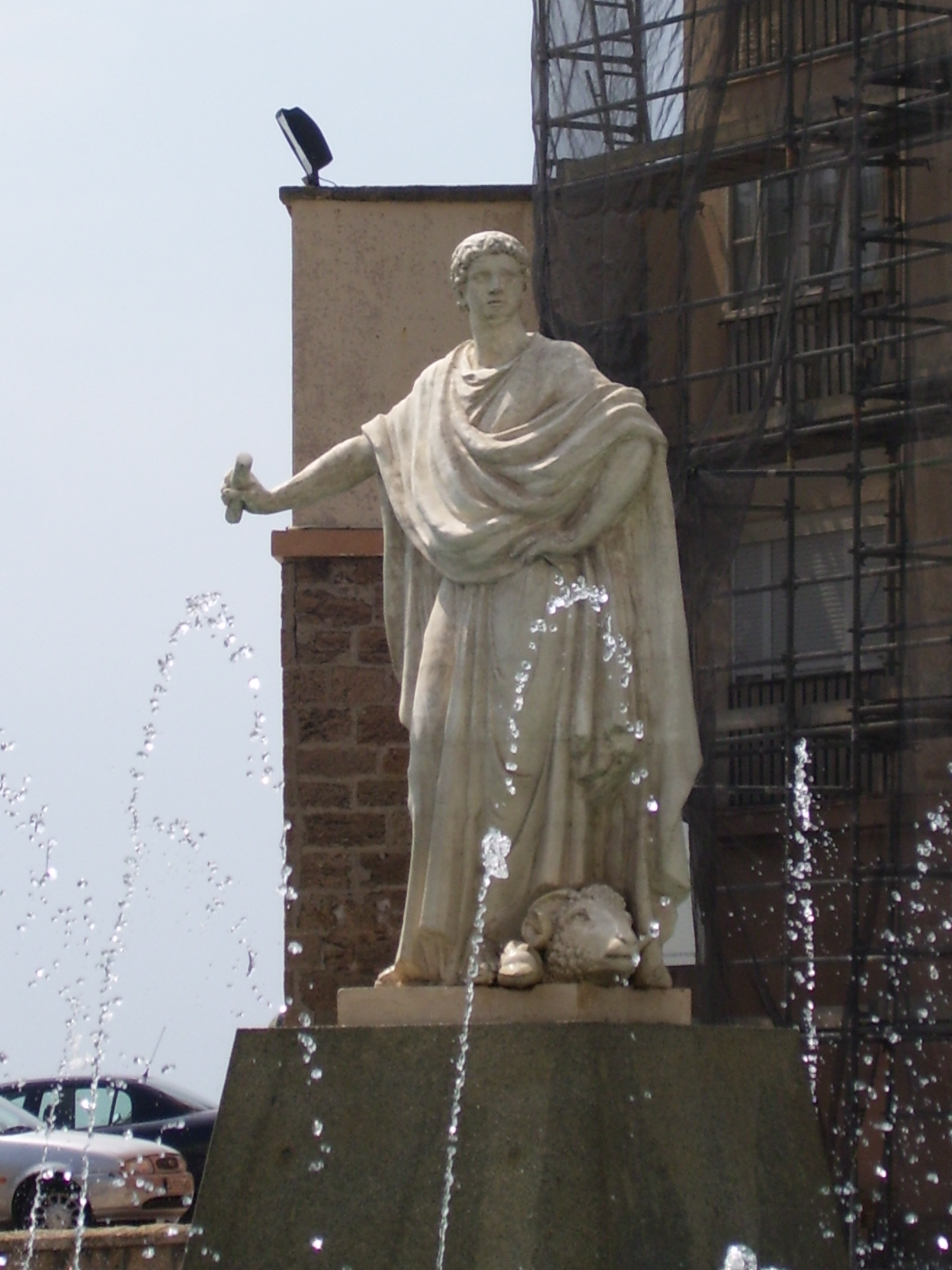 Balbus "The Minor"'s statue, placed in Cadiz, Andalusia, Spain.